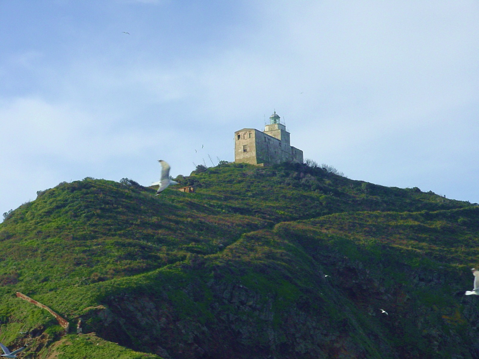 Palmaiola island, the lighthouse and the path, Italy